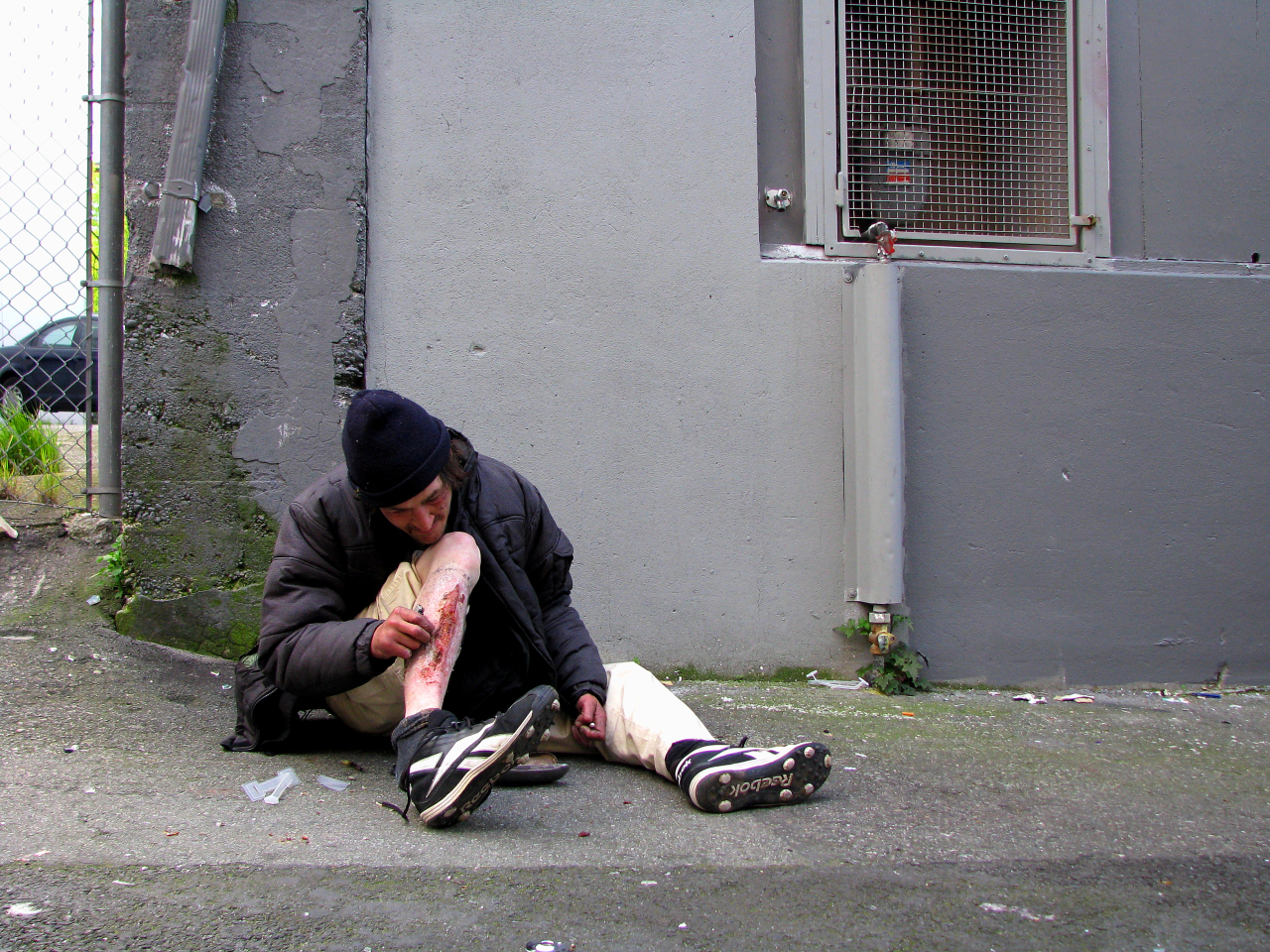 Steph, polite and friendly, picking at his open sores, and occasionally taking a hit of crack cocaine vapours, in a downtown eastside alleyway, in Vancouver BC Canada.